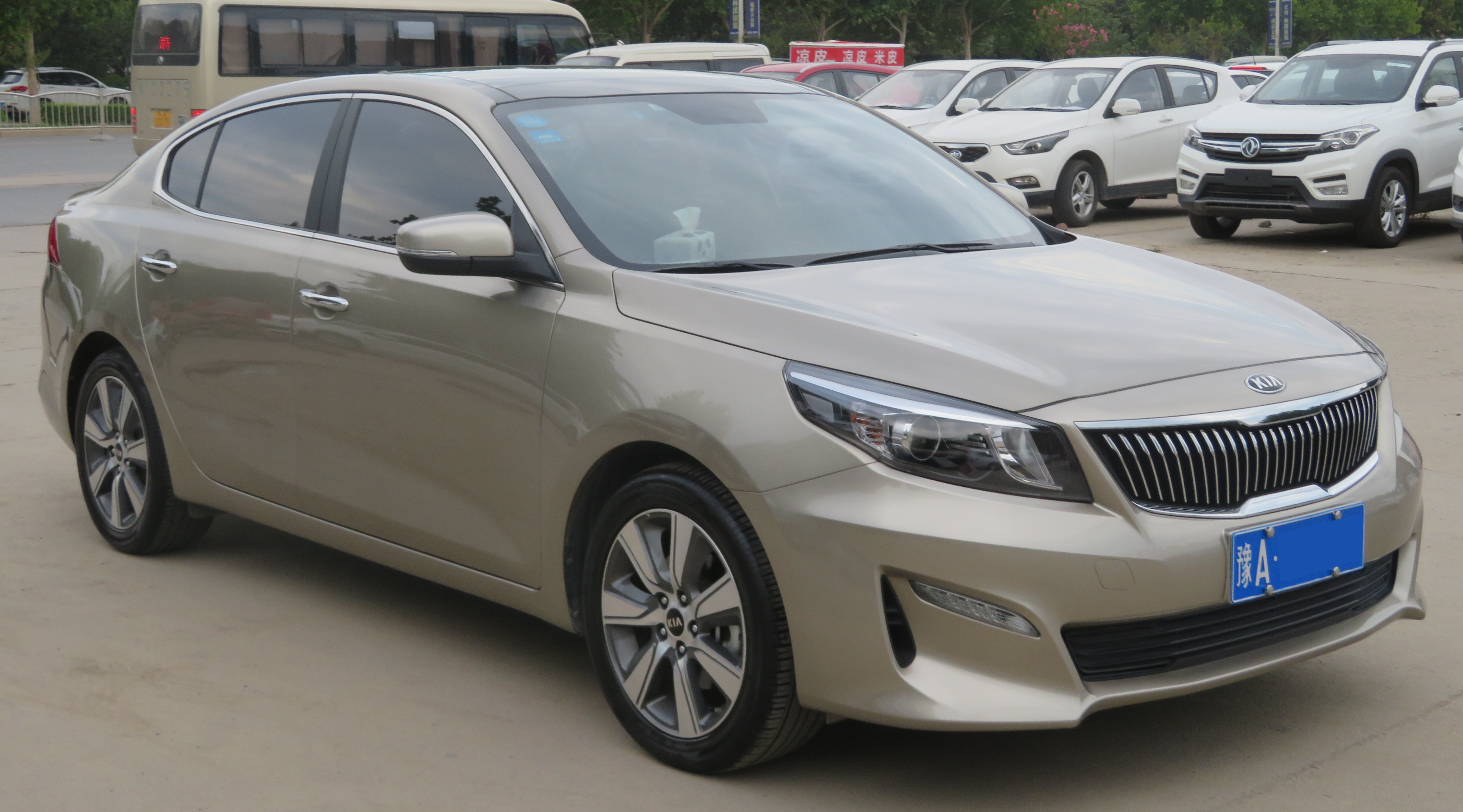 Photographed in Zhengzhou, Henan province, China